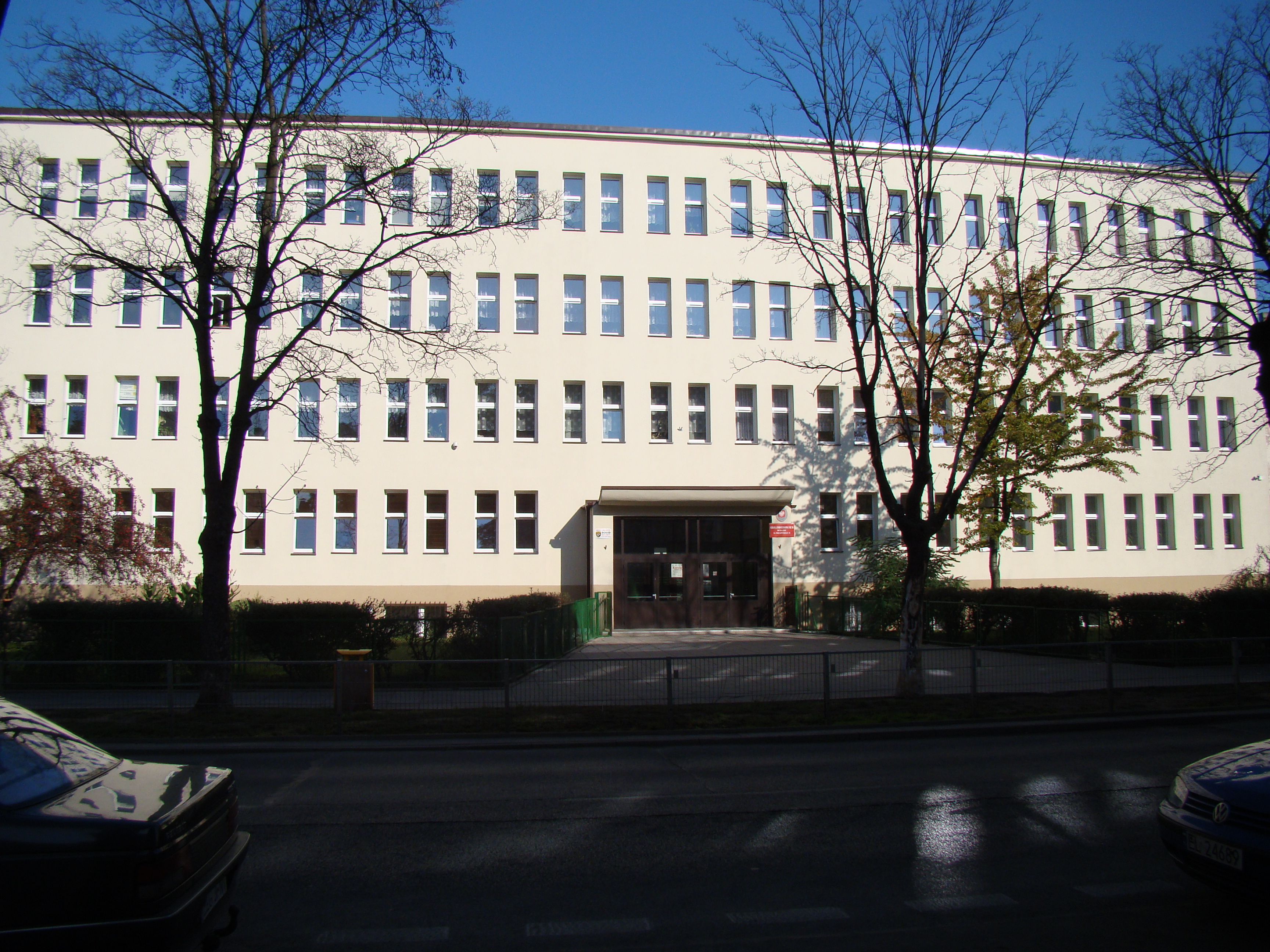 Elementary school in Łódź